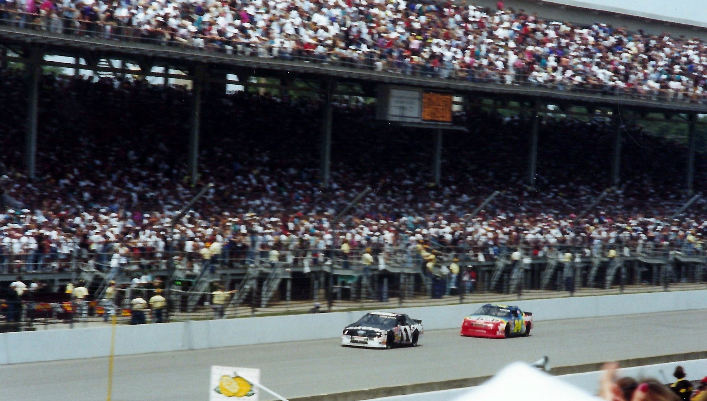 1994 NASCAR Brickyard 400 at the Indianapolis Motor Speedway. Jeff Gordon (#24) following Rick Mast (#1).